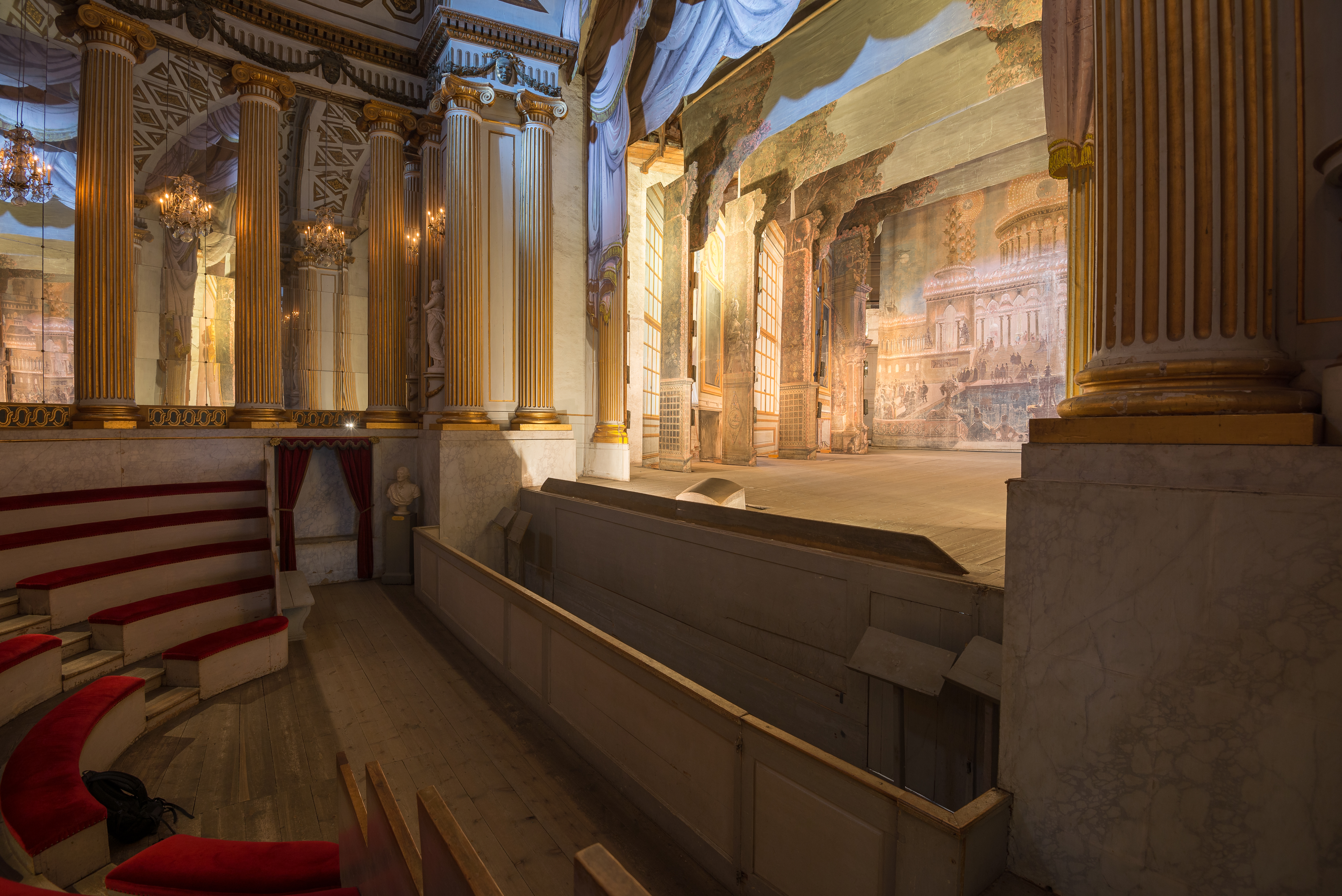 Gustav III's Theatre in Gripsholm Castle. In the 18th century king Gustav III fitted out the exquisite castle theatre in one of the round Renaissance towers of the castle. Today, the theatre is one of Europe's most well-preserved theatres from the 18th century.